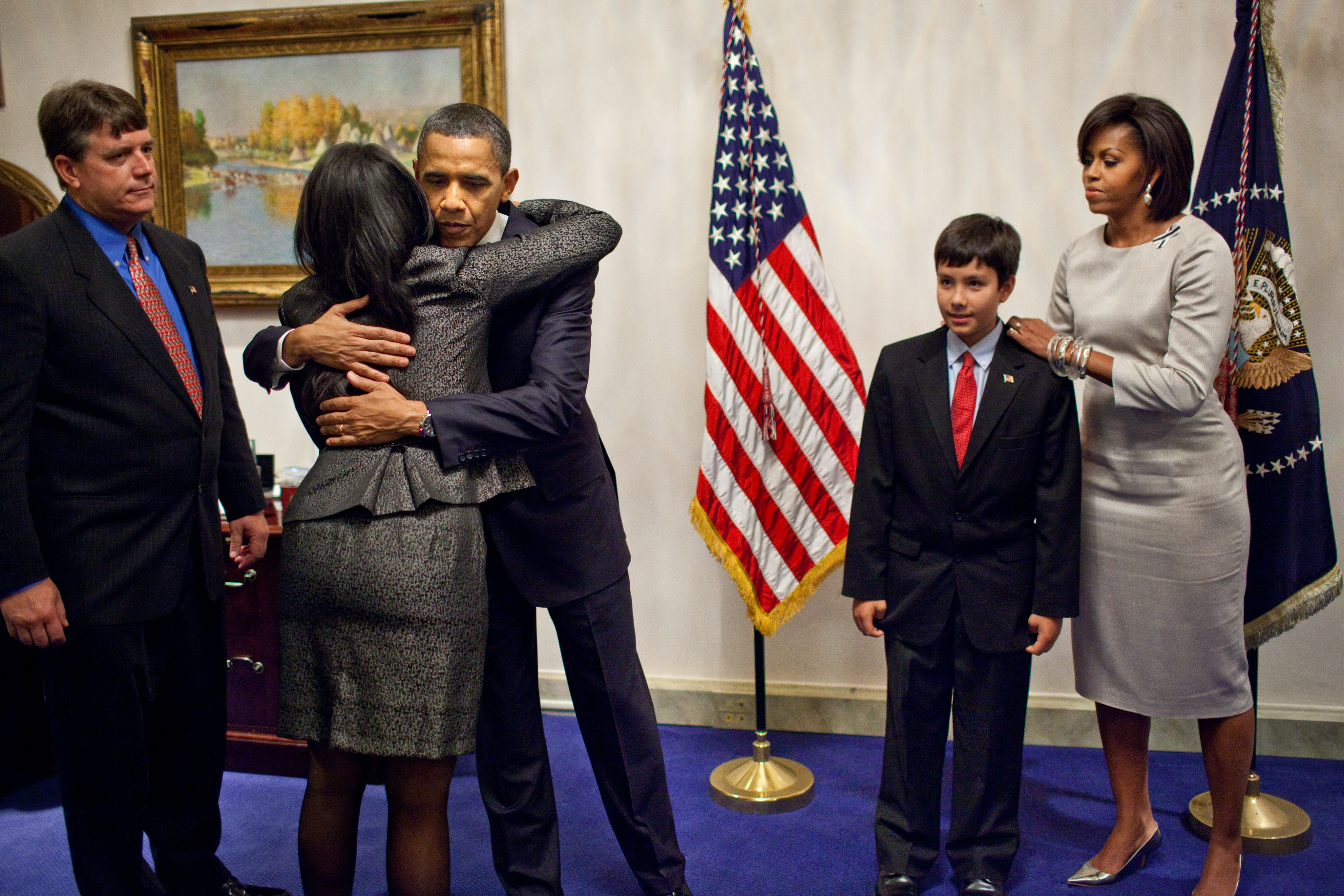 U.S. President Barack Obama and First Lady Michelle Obama greet the family of Christina Taylor Green, a 9-year-old victim of the 2011 Tucson shooting, at the U.S. Capitol following the 2011 State of the Union Address.